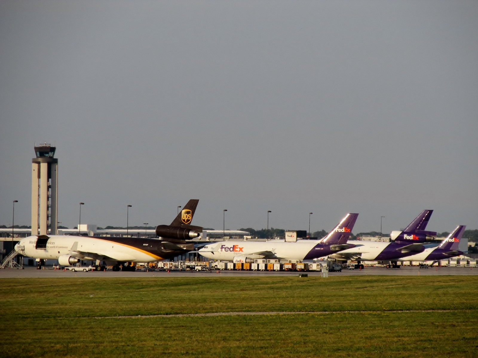 Cargo Ramp at MKE with control tower in the distance.